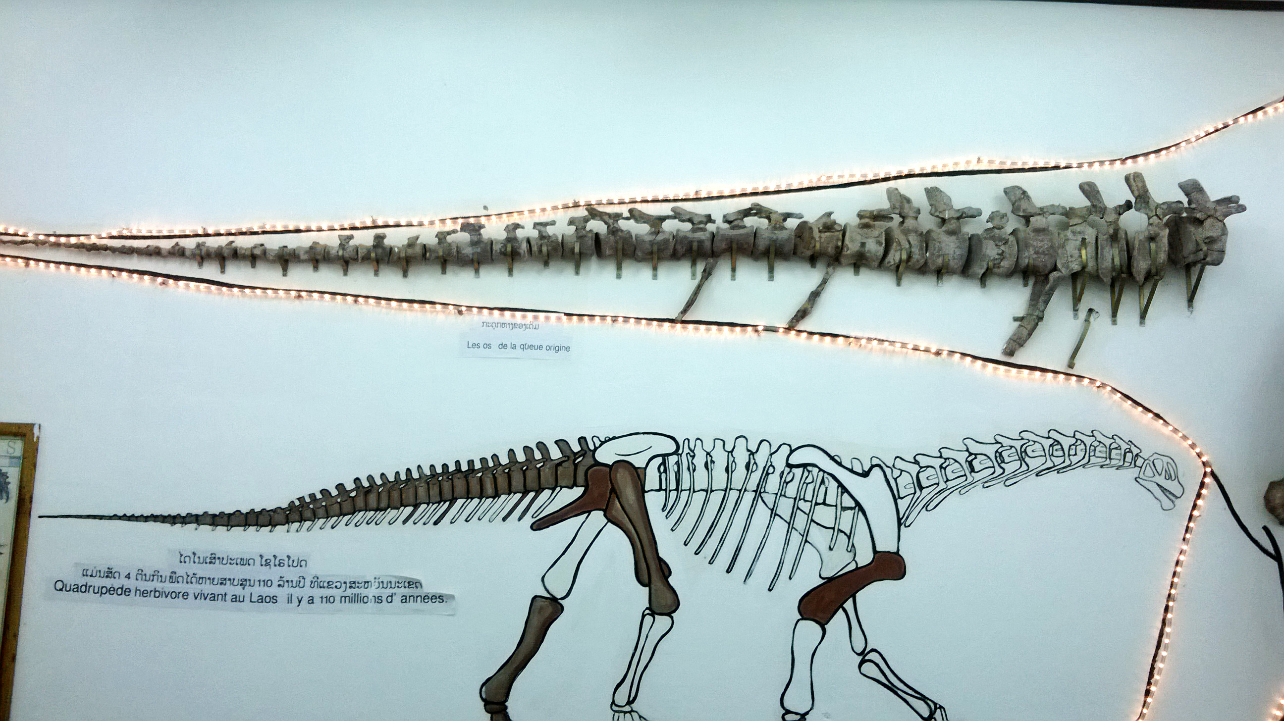 Caudal vertebrae (tailbones) Tangvayosaurus hoffeti (original). Dinosaur Museum, Savannakhet.